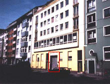 Mintropstraße 16, Düsseldorf, location of the former Kling Klang Studio of the band Kraftwerk.